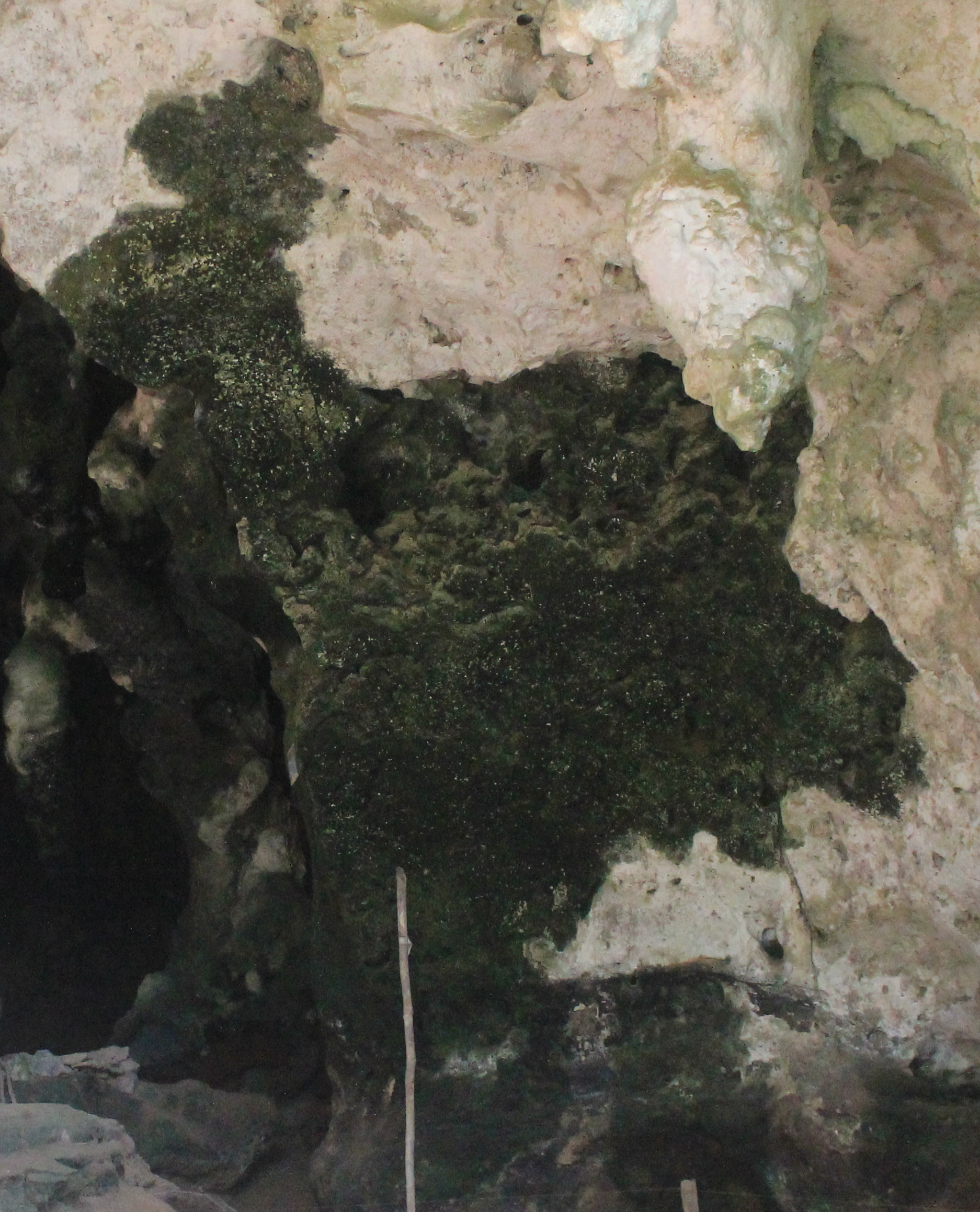 I am not allowed to describe the image as it may be called original research. So lets call it a dark blotch.